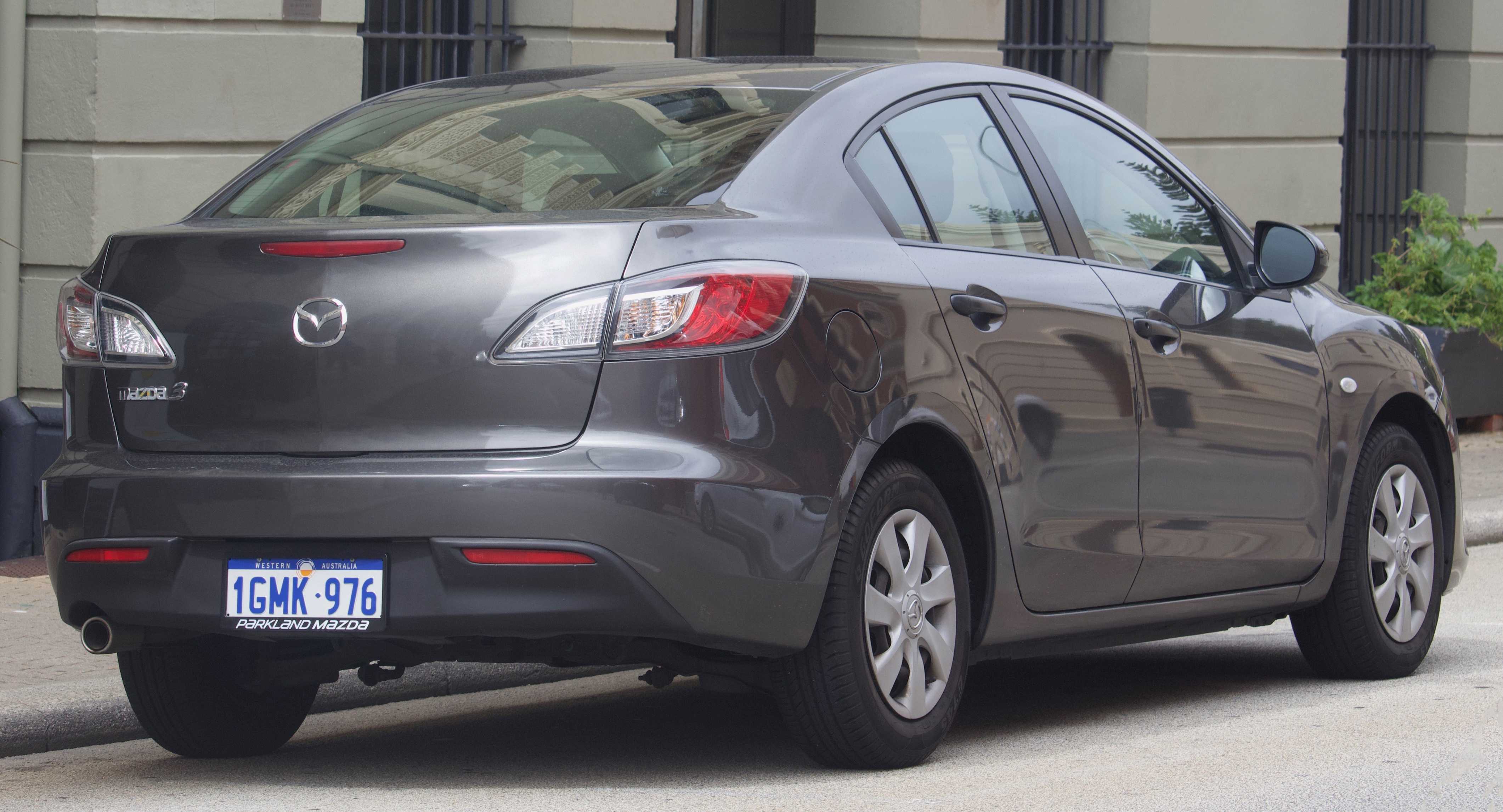 2009 Mazda3 (BL) Neo sedan. Photographed in Fremantle, Western Australia, Australia.